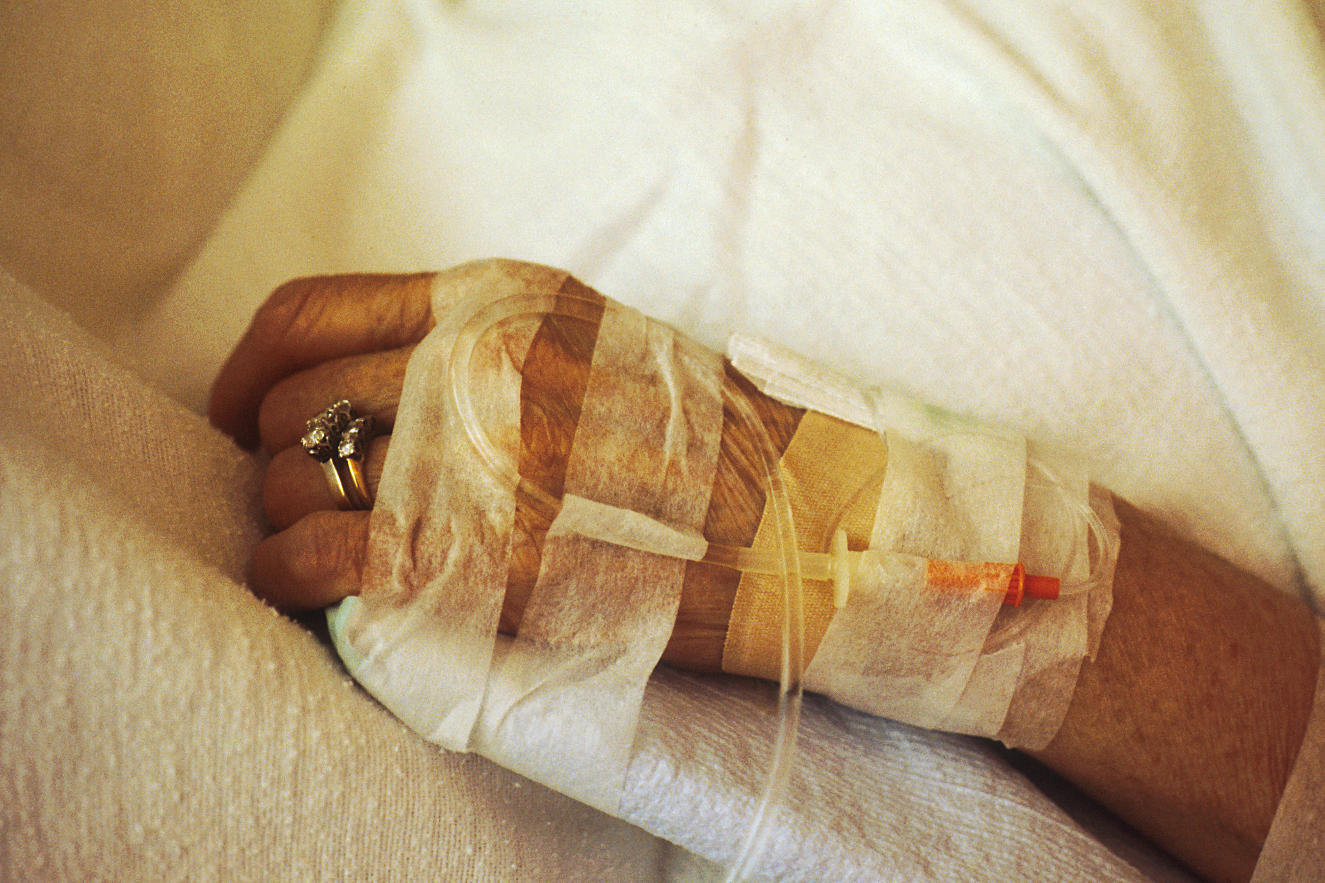 Title Chemotherapy IV Description A closeup of a chemotherapy IV in a patient's hand. Topics/Categories Locations, Clinic/Hospital Treatment, Chemotherapy Type Color, Photo Source National Cancer Institute